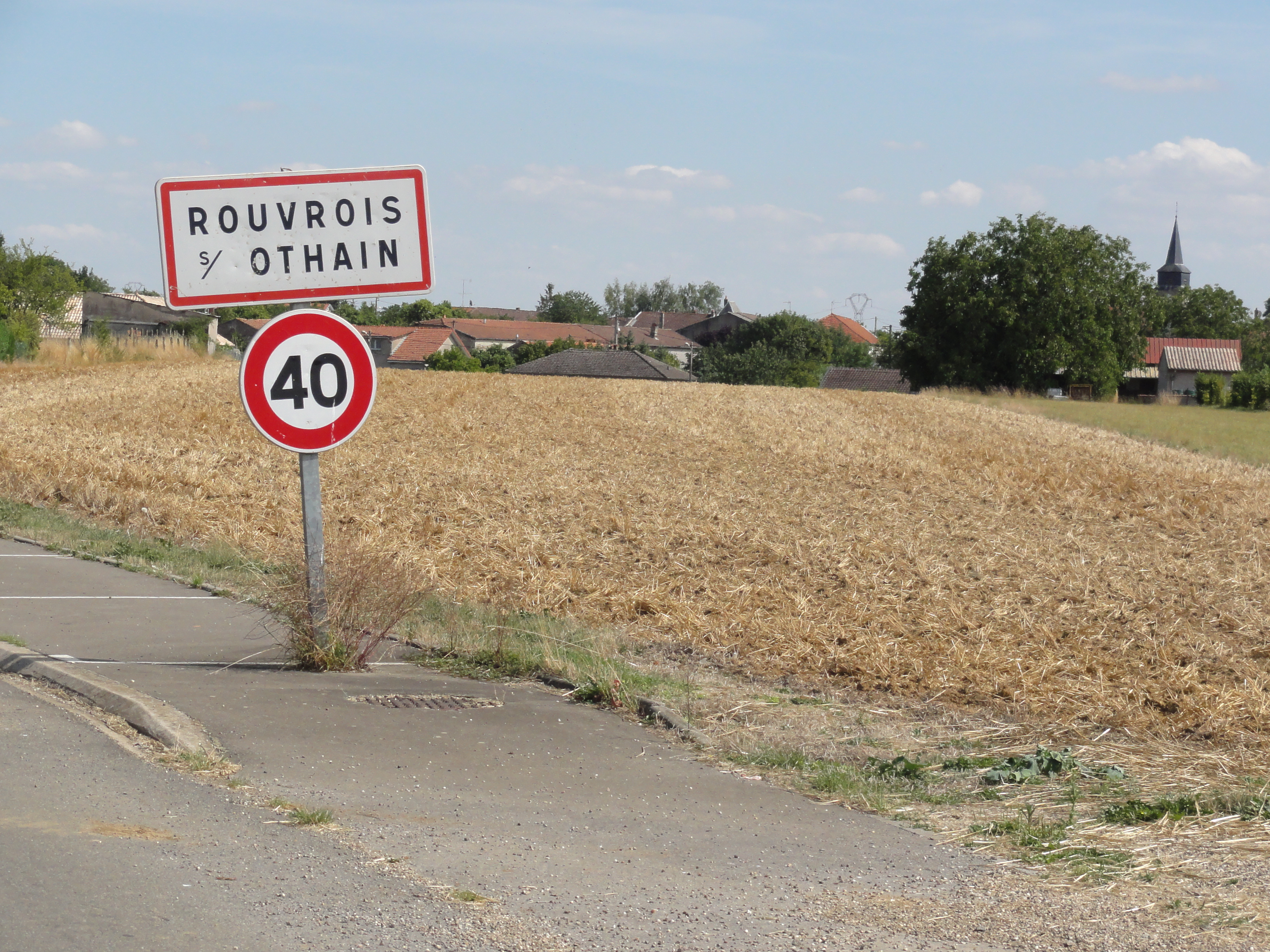 Rouvrois-sur-Othain (Meuse) city limit sign